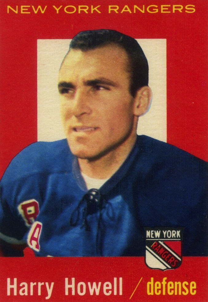 Harry Howell with the New York Rangers